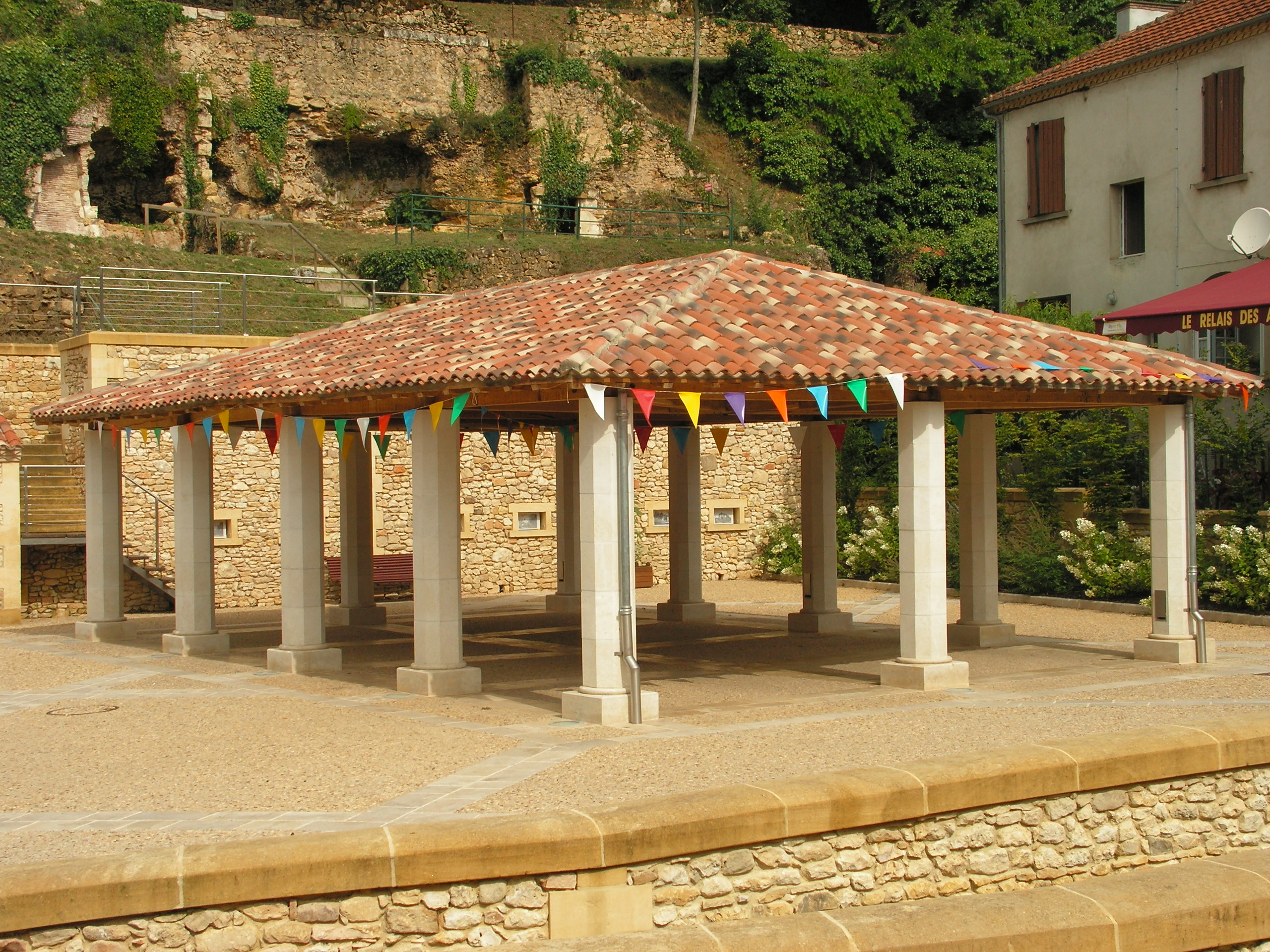 Mouleydier (Dordogne)